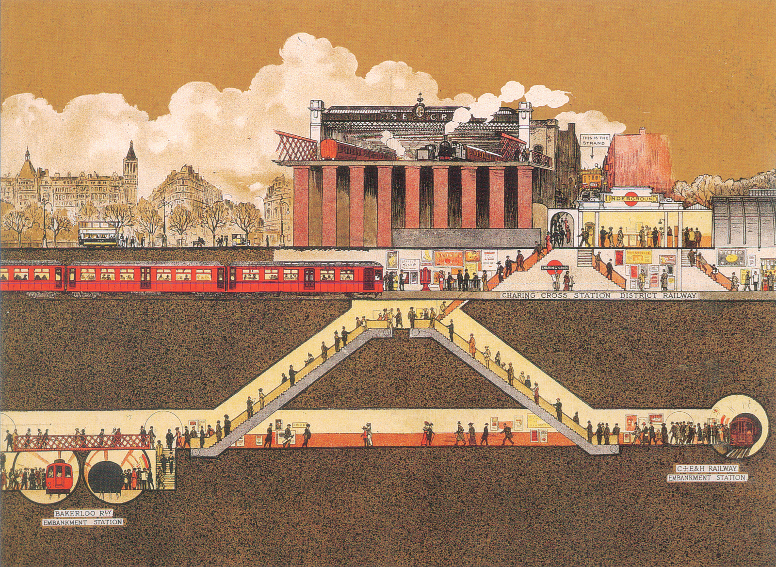 Section of poster "The New Charing Cross" from UERL advertising opening of Charing Cross, Euston and Hampstead Railway extension to Charing Cross Underground station, London